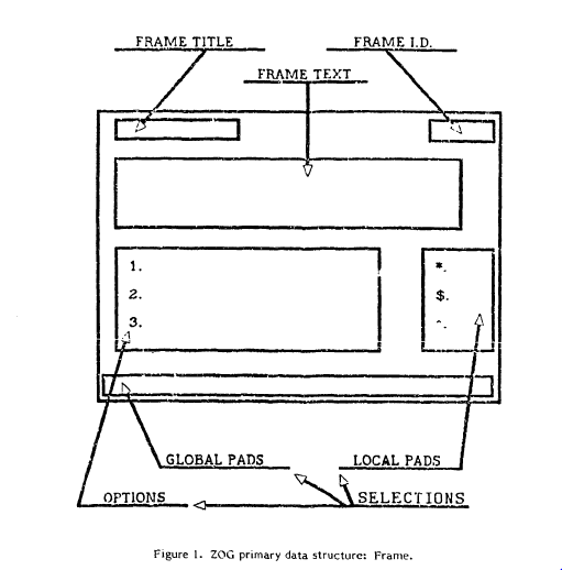 This is an input form for ZOG data entry